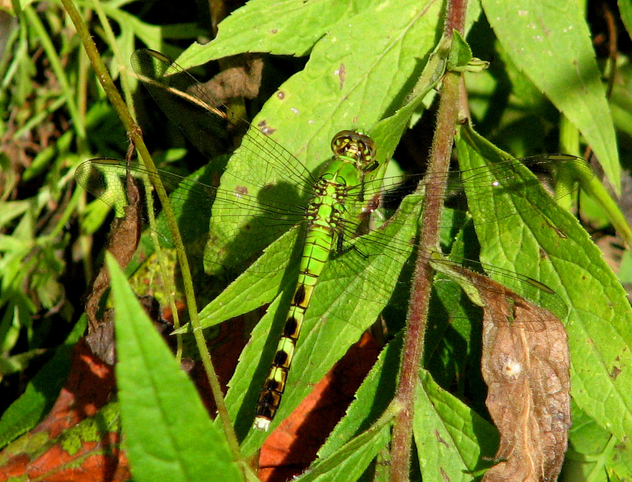 Eastern Pondhawk (Erythemis simplicicollis), female, Ottawa, Ontario